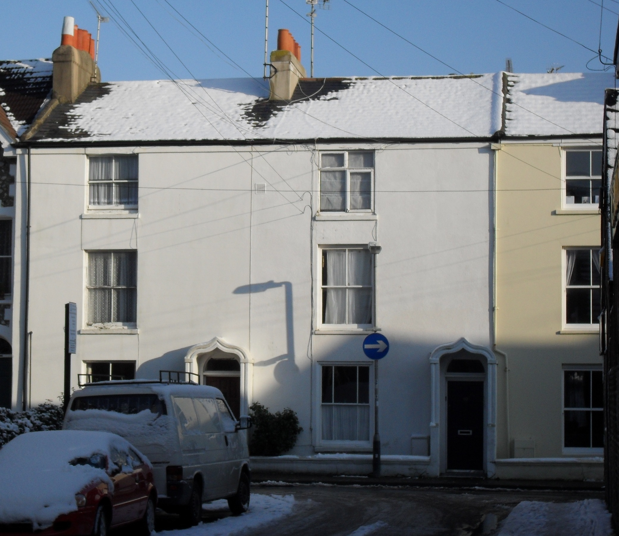 90 (right; partly obscured), 92 (centre) and 94 (left) Portland Road, Worthing, West Sussex, England, seen from the west. A terrace of three cottages, built before 1814, with boat porches and sash windows.